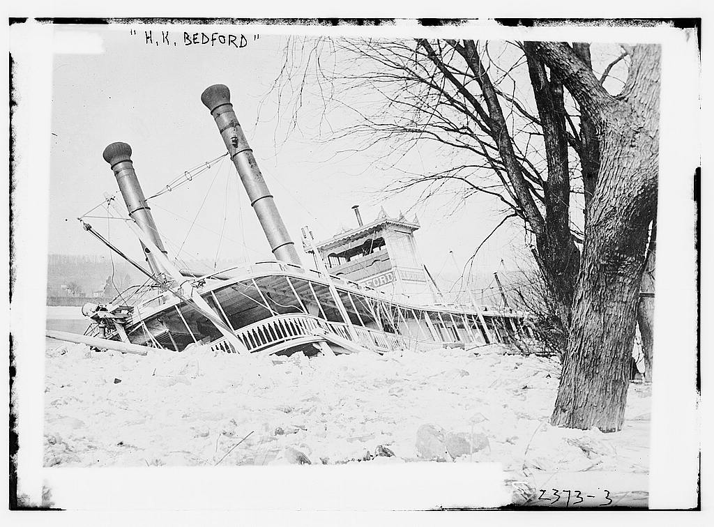 H. K. Bedford (LOC) February 29, 1912 Bain News Service,, publisher. H.K. BEDFORD [1912] (date created or published later by Bain) 1 negative : glass ; 5 x 7 in. or smaller. Notes: Title from unverified data provided by the Bain News Service on the negatives or caption cards. Photo shows the steamboat H.K. Bedford, which sank in the Ohio River near Waverly, West Virginia, in February 1912. (Source: Flickr Commons project, 2008) Forms part of: George Grantham Bain Collection (Library of Congress). Subjects: Ships Format: Glass negatives. Repository: Library of Congress, Prints and Photographs Division, Washington, D.C. 20540 USA, General information about the Bain Collection is available at Persistent URL: Call Number: LC-B2- 2373-3